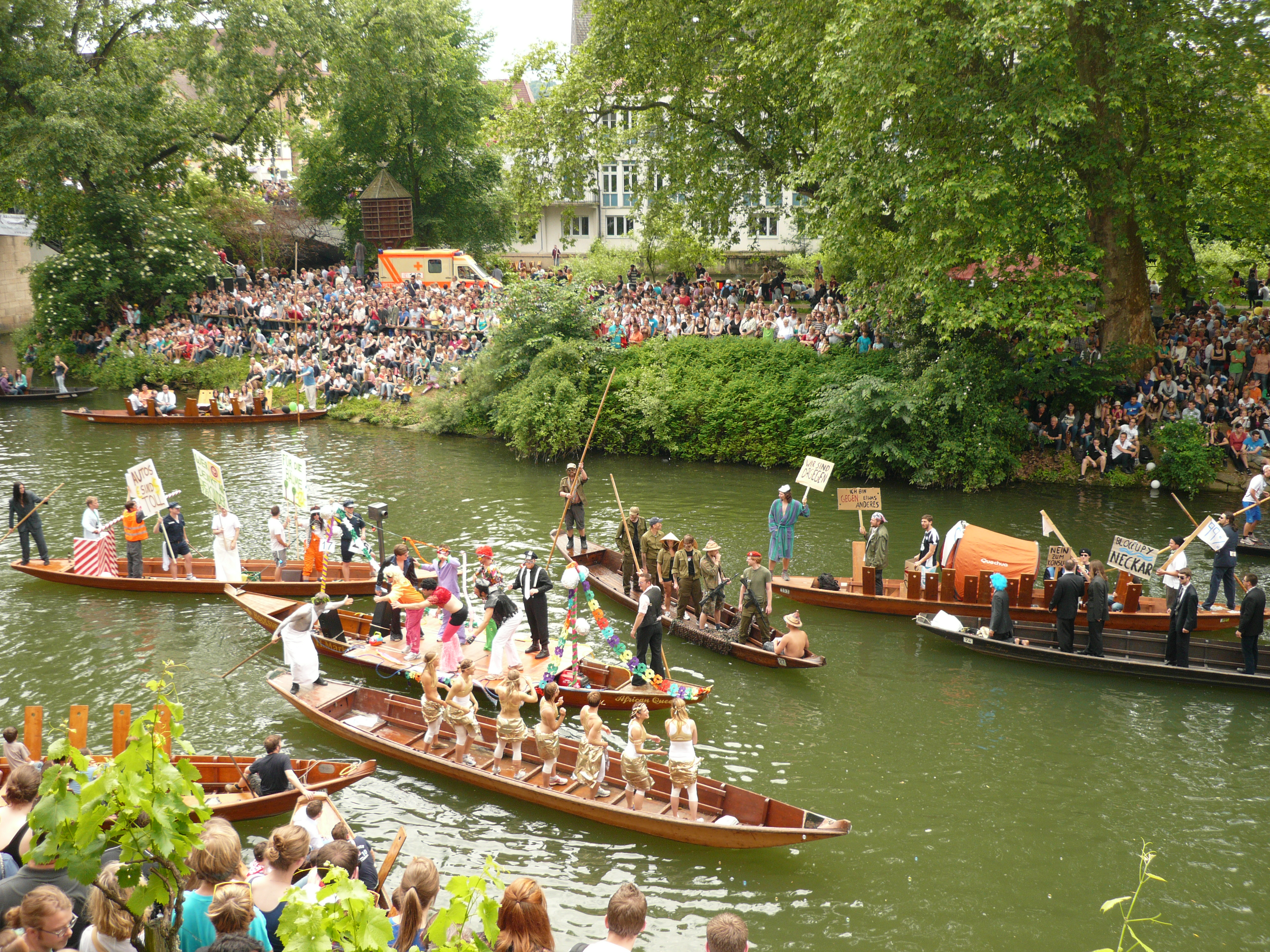 Traditional boat ralley at Tuebingen, 2012